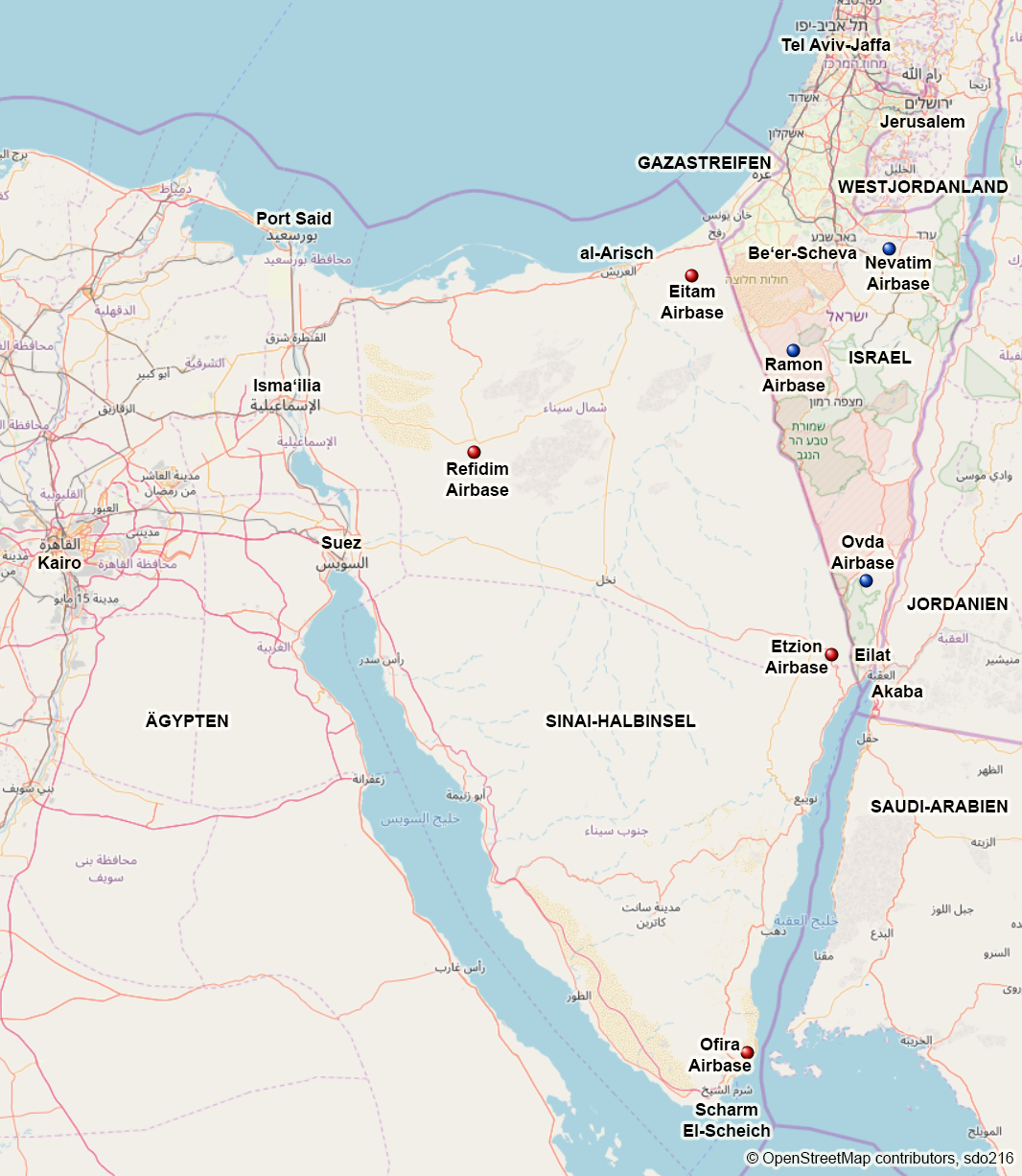 Abandoned IAF Air Bases in Sinai after the Camp David Accords and new constructed ones in the Southern District of Israel